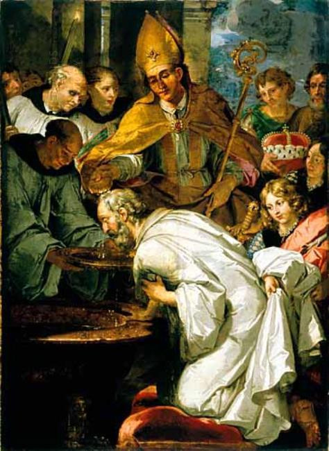 St. Rupert baptizes the Bavarian Duke Theodo II, oil painting by Francis de Neve (II), Salzburg, Dommuseum zu Salzburg